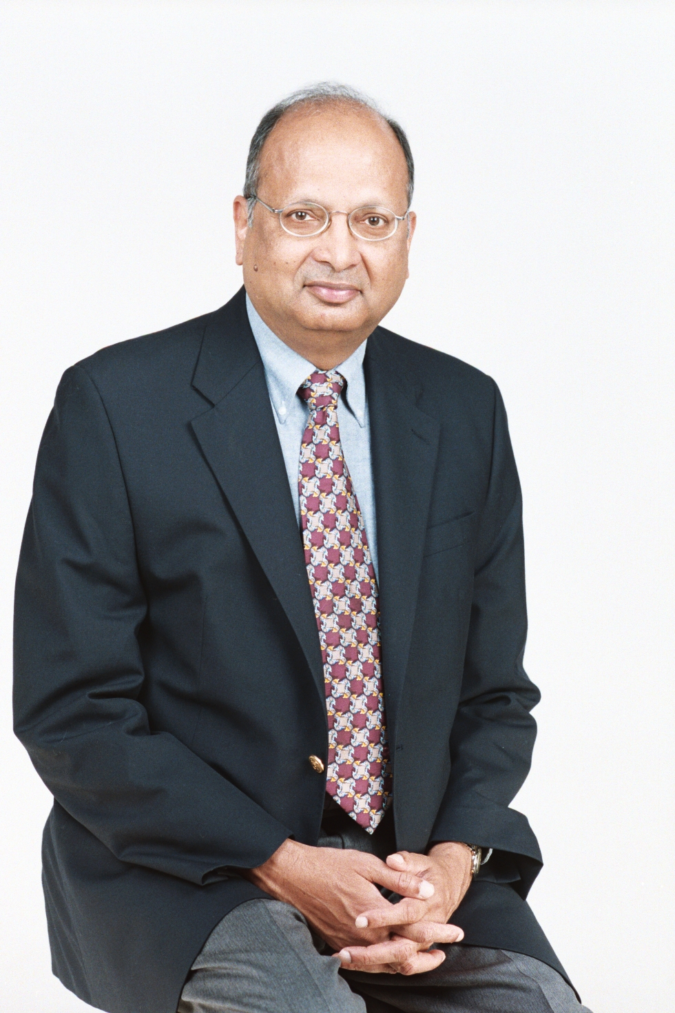 My photo. Owned by me.